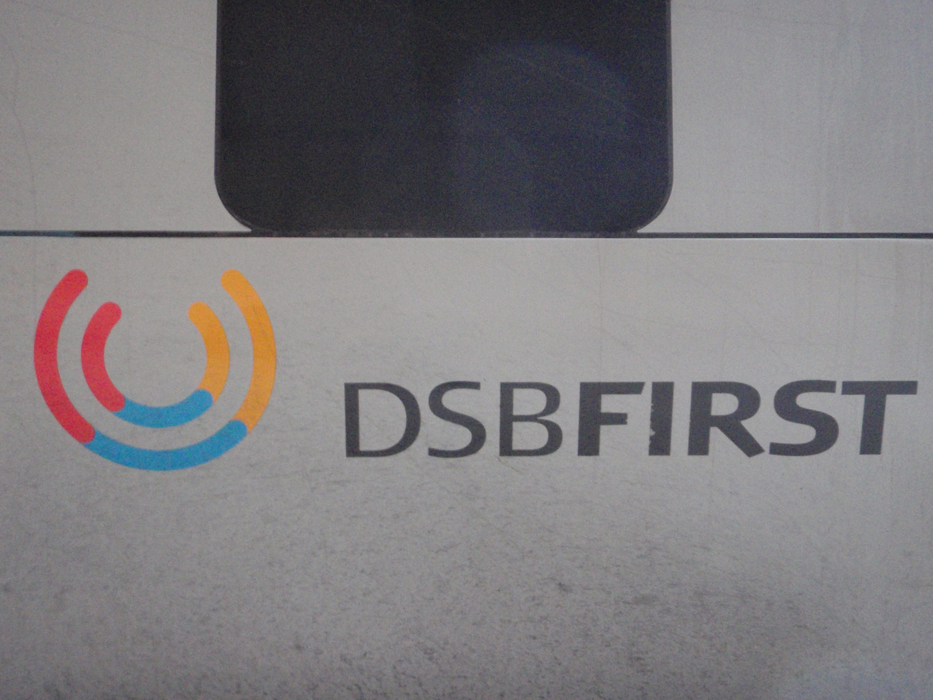 DSBFirst logo at DSB Class ET EMU